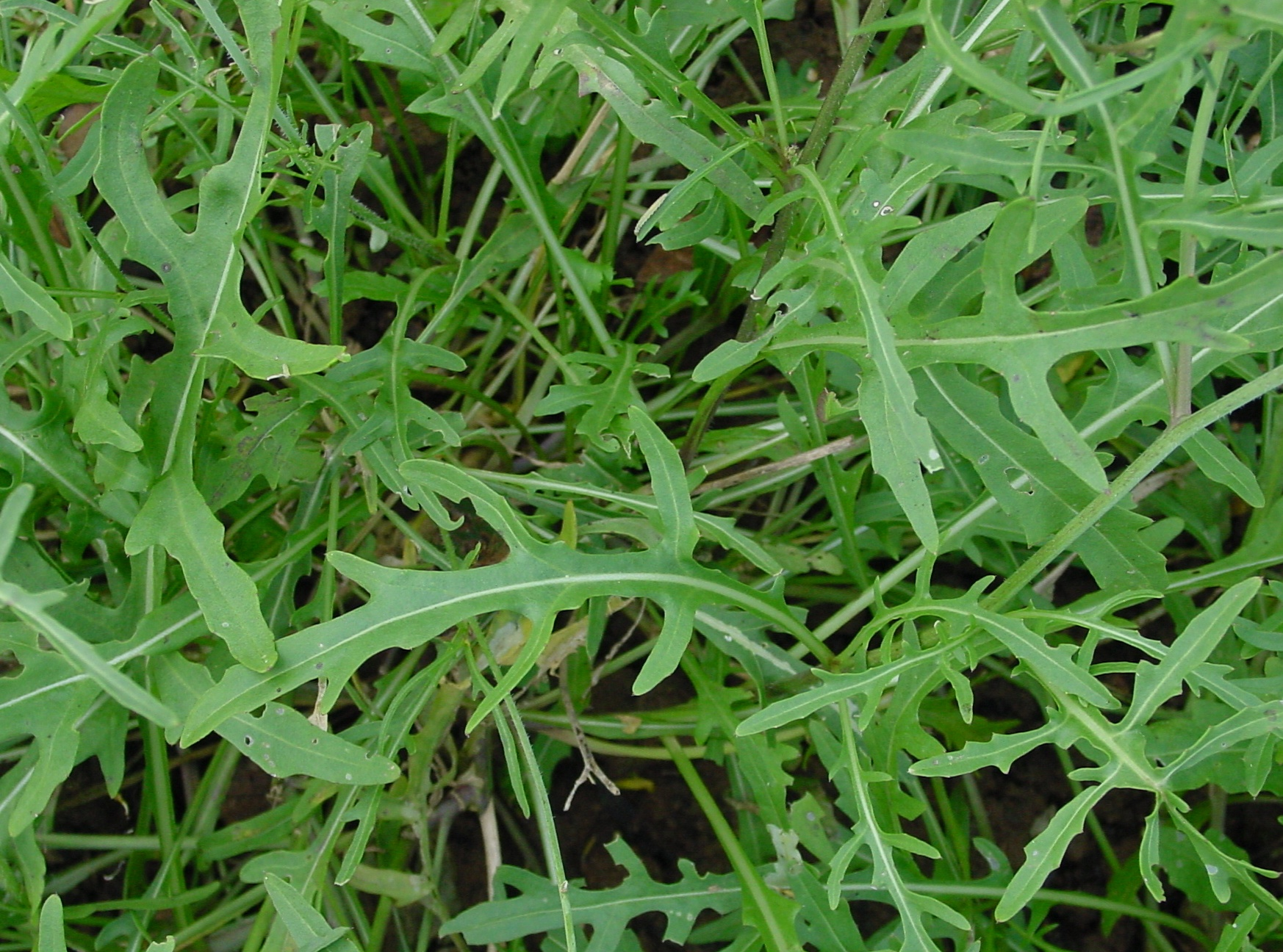 Diplotaxis tenuifolia, leaves, Untereisesheim, Germany